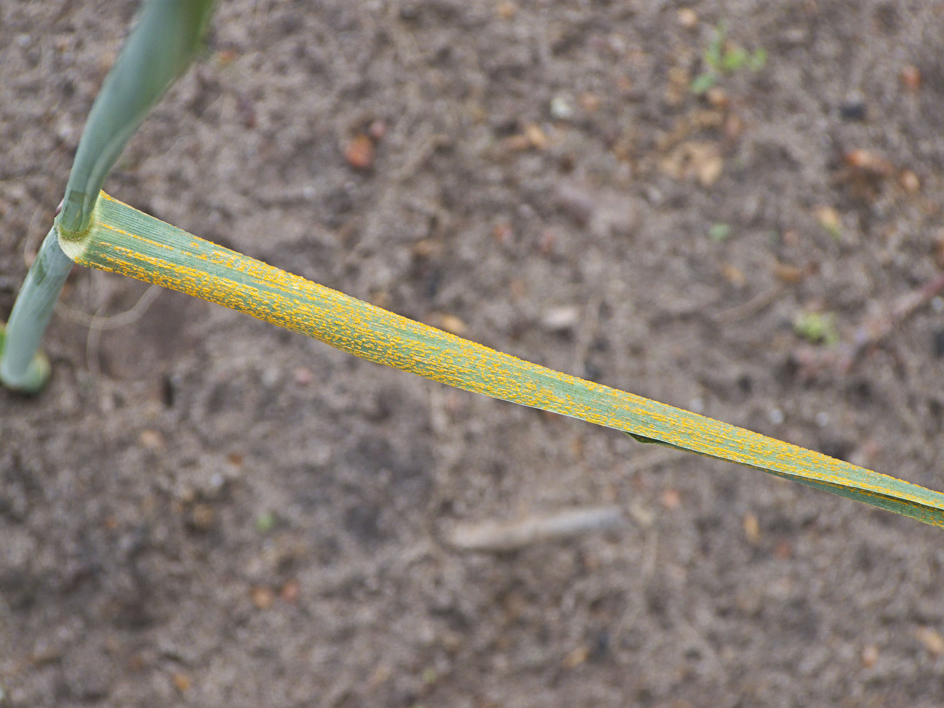 Puccinia striiformis f.sp. triticale on triticale